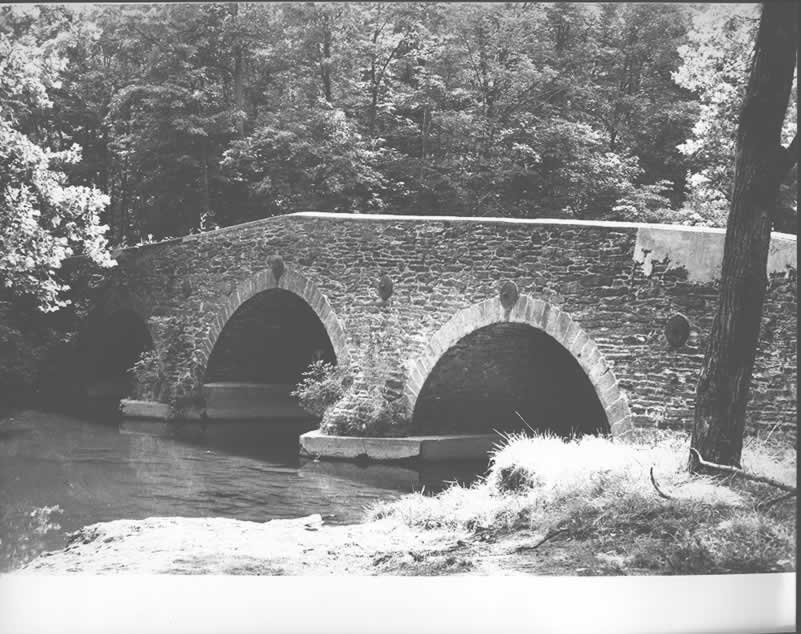 Side of the Pond Mill Bridge, which carries Legislative Route 1009 over Bermudian Creek near Bermudian in Latimore Township, Adams County, Pennsylvania, United States. This three-span camelback arch bridge is listed on the National Register of Historic Places.